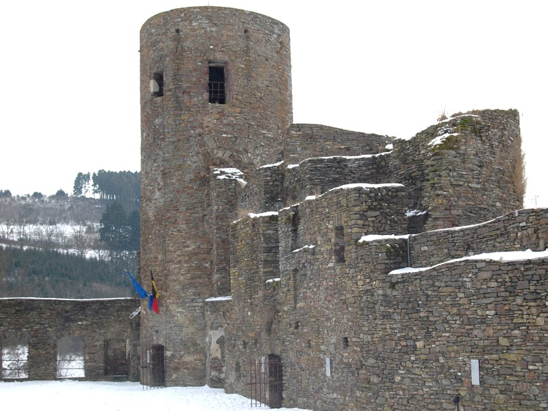 Inner ward of Castle Reuland in Belgium